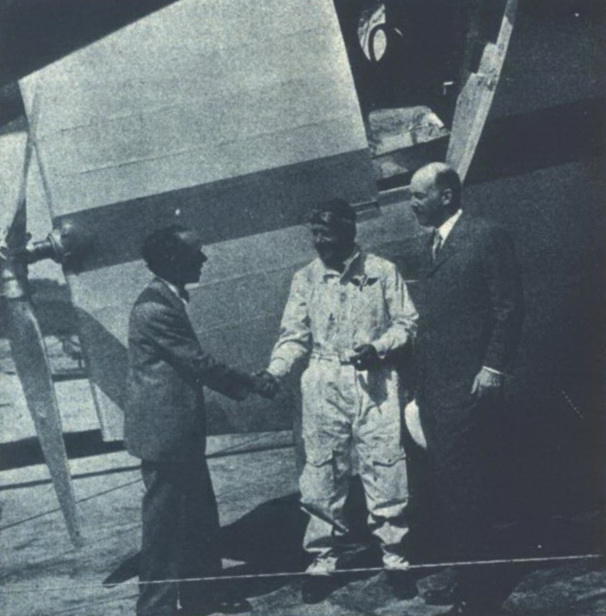 Bellanca TES Tandem. G. M. Bellanca, Shirley J. Short and J. L. Houghteling in front of the plane (from left to right)